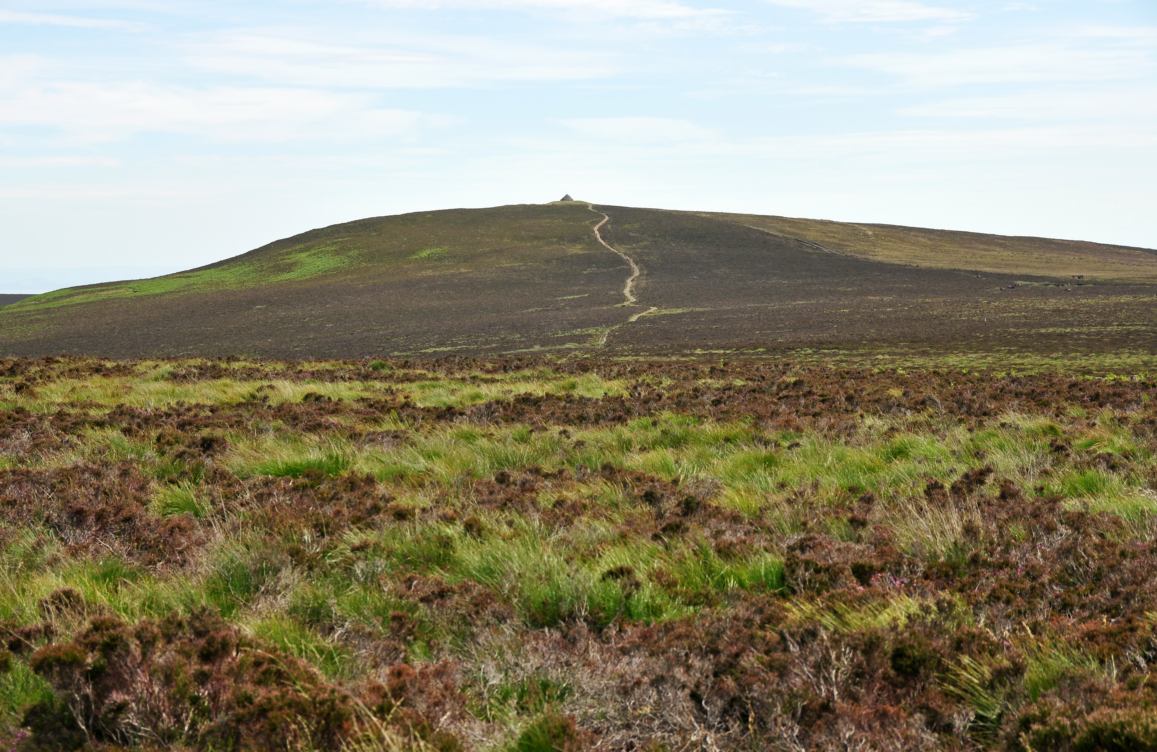 View of Dunkery Beacon from near Little Rowbarrow on Exmoor. Dunkery Beacon is the highest point in Exmoor.